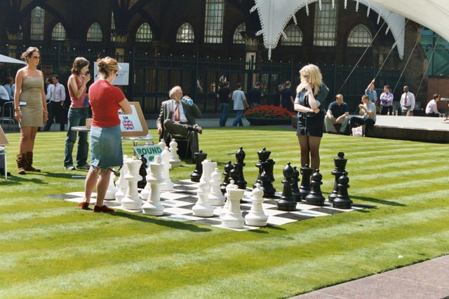 International open-air chess at the Broadgate Centre, London. British girl champion Aly Wilson (right, black pieces) ponders her move against American girl champion Jennifer Shahade. In the background, chess impresario Michael Basman relaxes with a canned drink.